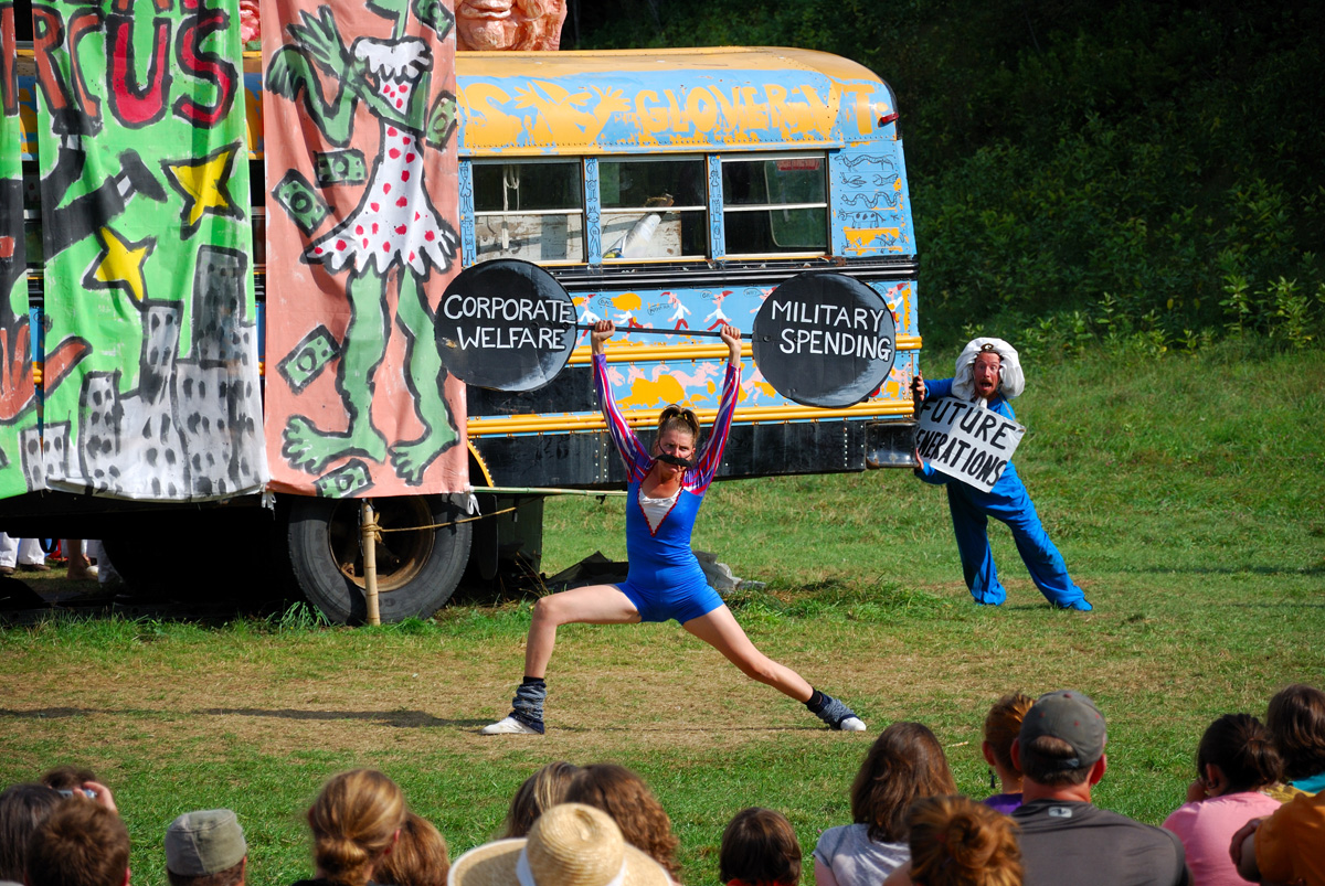 Bread and Puppet show in August 2009